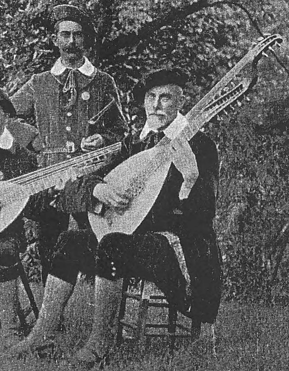 Two members of the Dietsche Trekvogels in 1920: A. van der Linden and J. Aukes